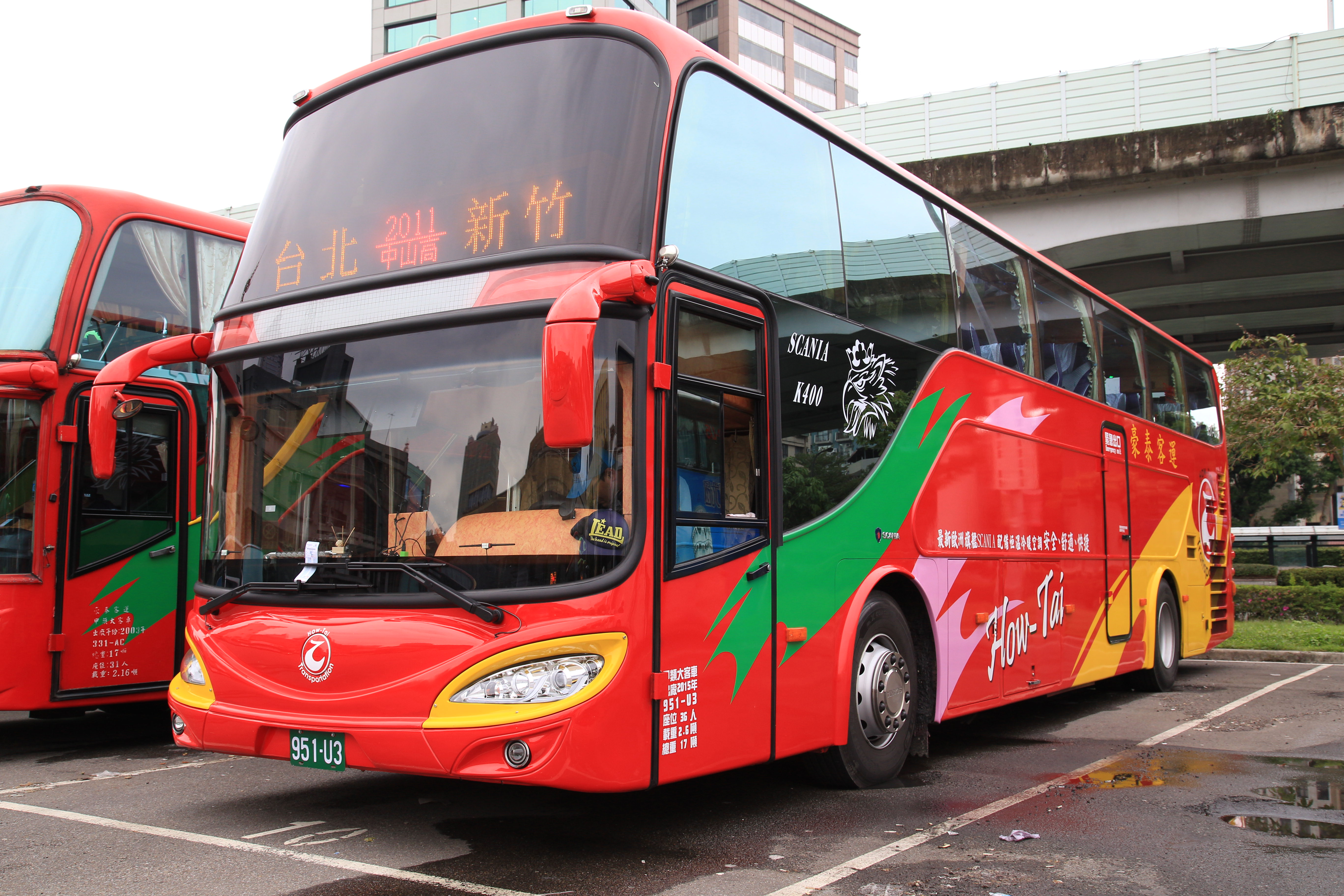 2015 Scania K400IB4X2NB bus 951-U3 of HowTai Transportation. 中文（台灣）: 豪泰客運2015年Scania K400IB4X2NB大客車951-U3。